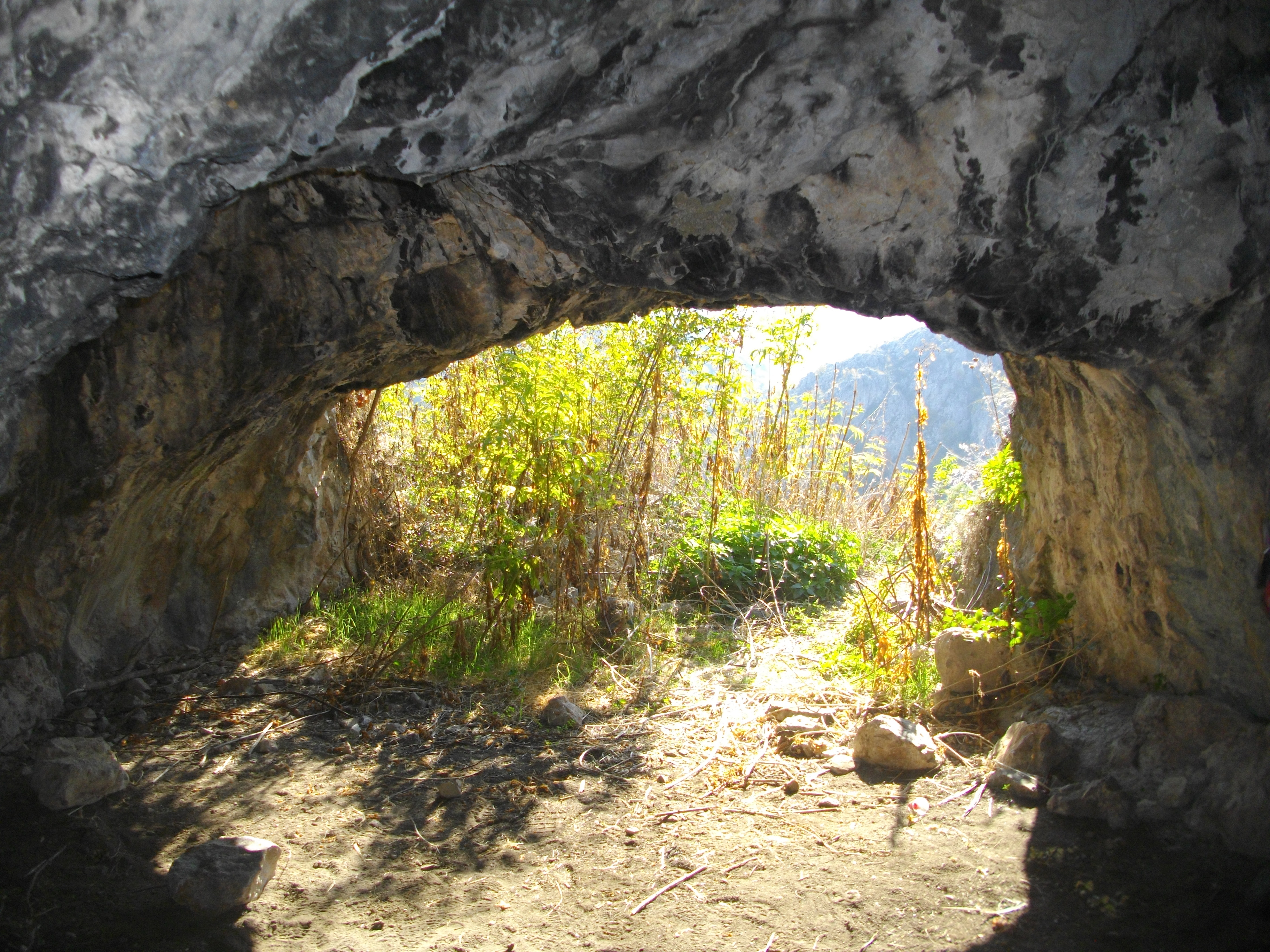 Gradishte Cave